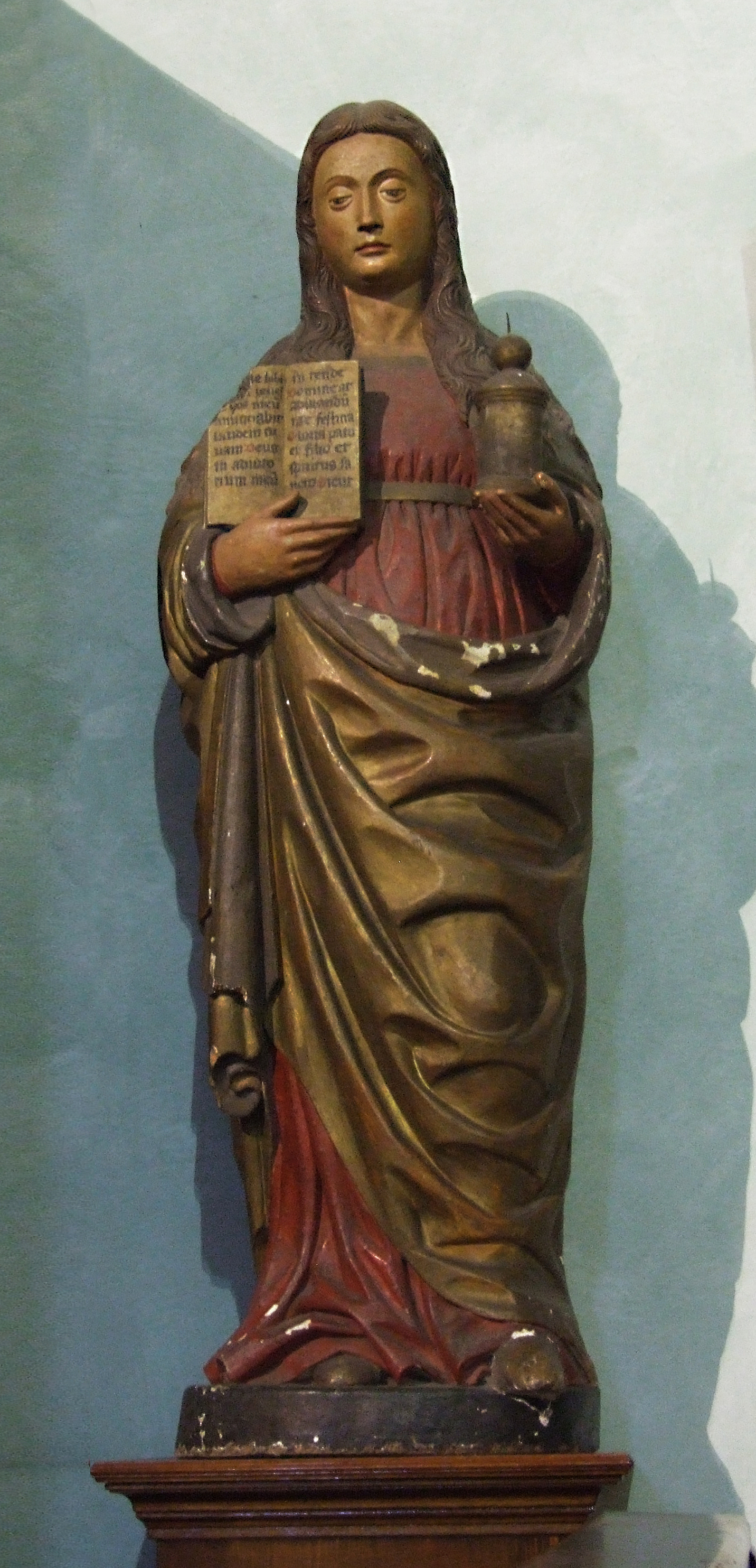 Pietro Bussolo "St Magdalene" Polychrome wood - XVIsec. Corpus Domini Church, Pargliaro (BG - Italy)